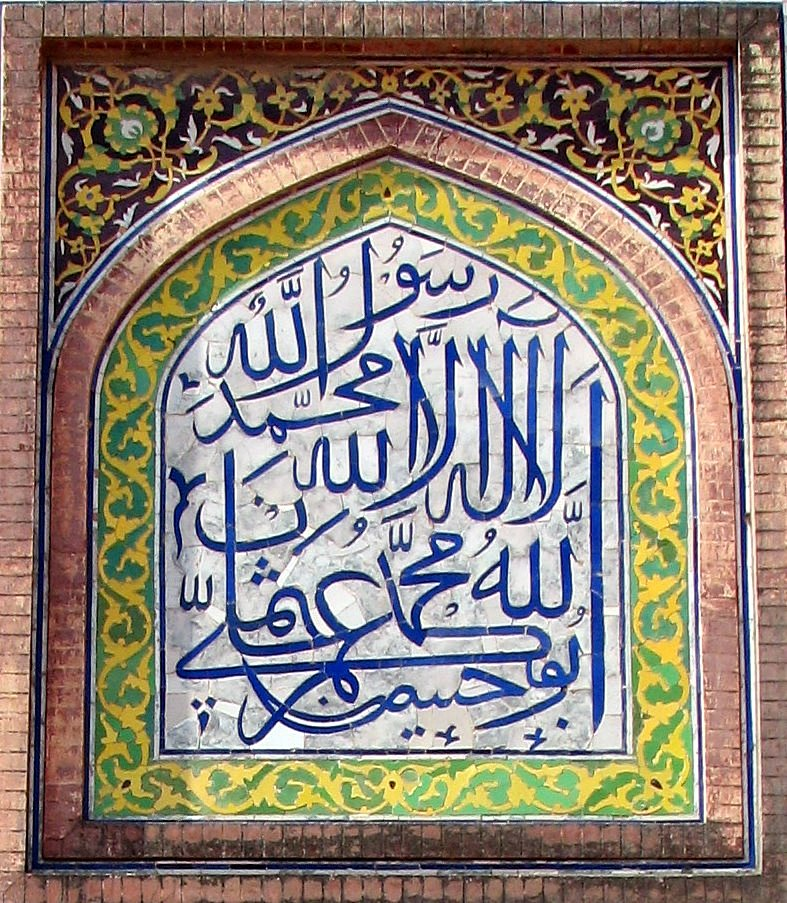 The Wazir Khan Mosque in Lahore, Pakistan, is famous for its extensive faience tile work. It was built in seven years, starting around 1634-1635 A.D., during the reign of the Mughal Emperor Shah Jehan. It was built by Shaikh Ilam-ud-din Ansari, a native of Chiniot, who rose to be the court physician to Shah Jahan and later, the Governor of Lahore. He was commonly known as Wazir Khan. (The word wazir means 'minister' in Urdu language.) *The mosque is located inside the Inner City and is easiest accessed from Delhi Gate. (